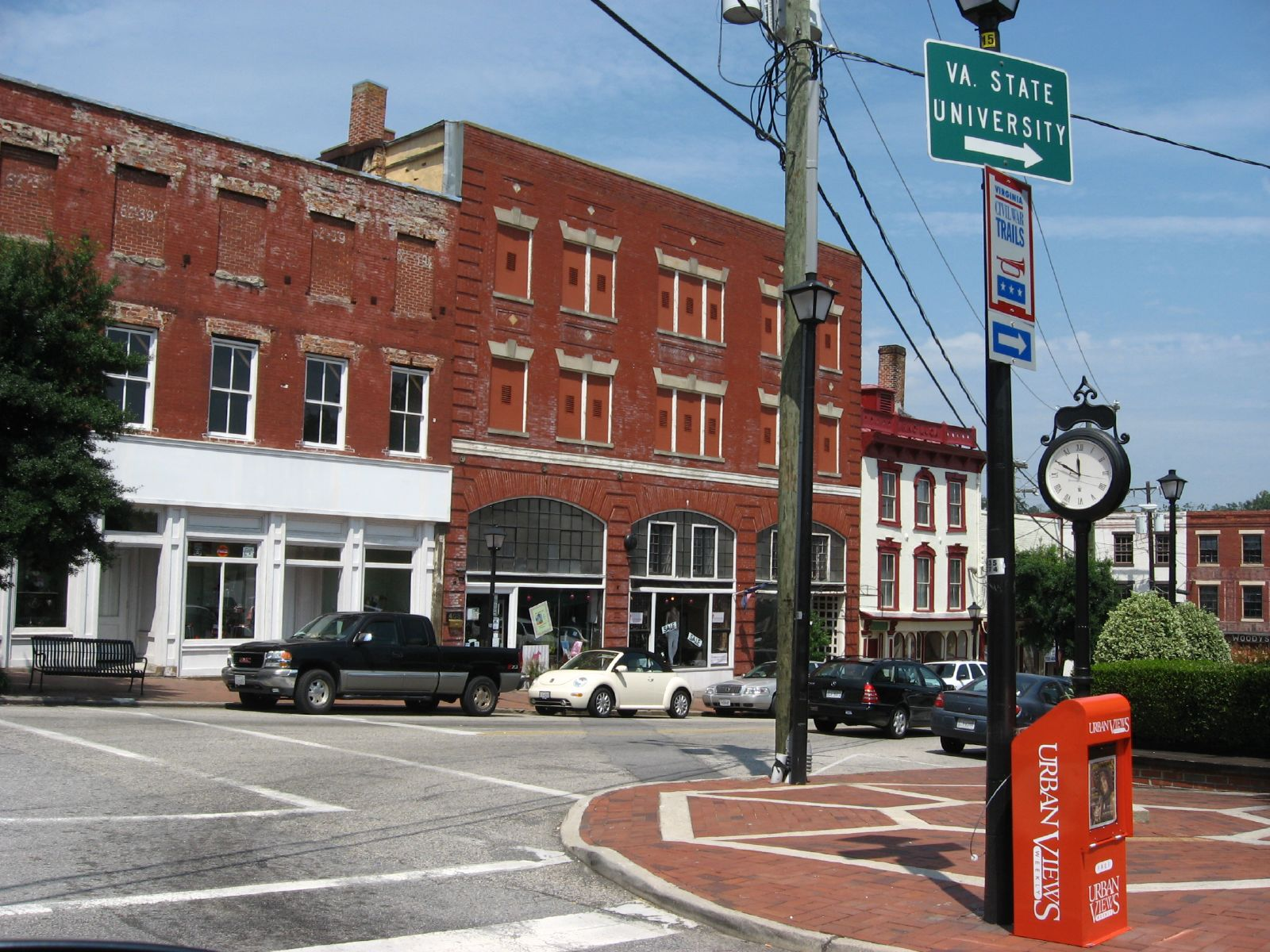 Another view of downtown Petersburg.